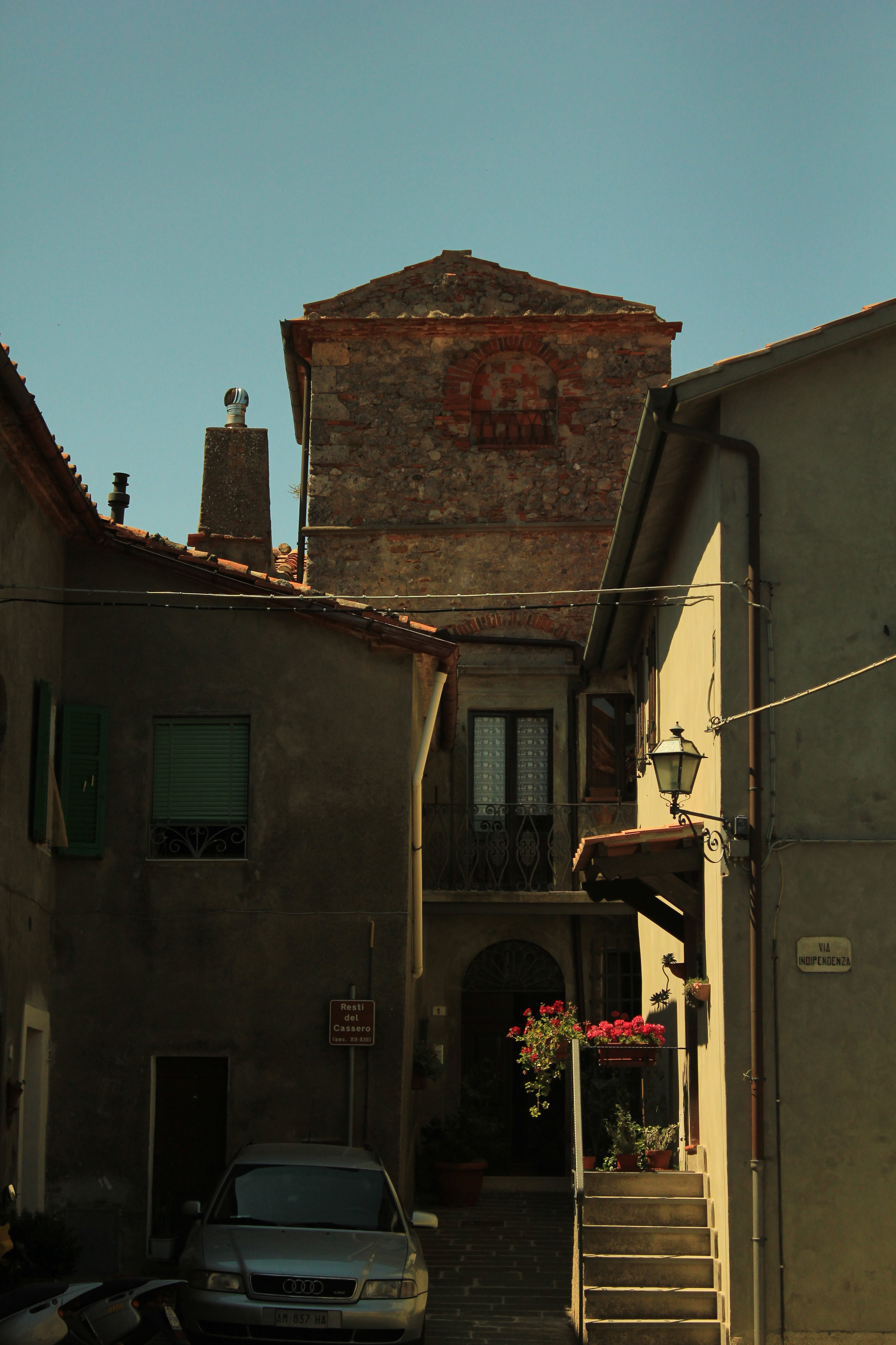 Old Cassero in Prata, Grosseto, Tuscany.